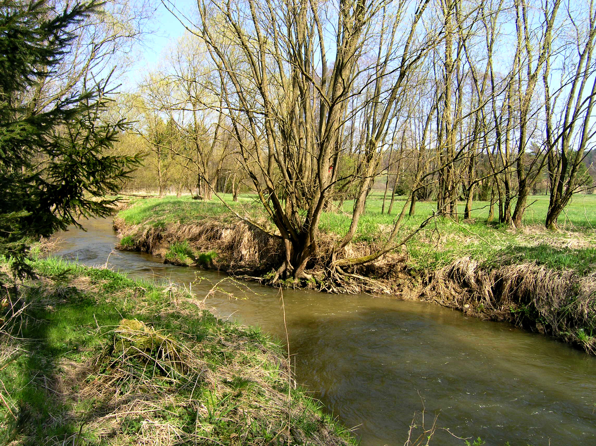 Pstružný Creek in Kamenná trouba natural reserve by Lipnice nad Sázavou, Czech Republic